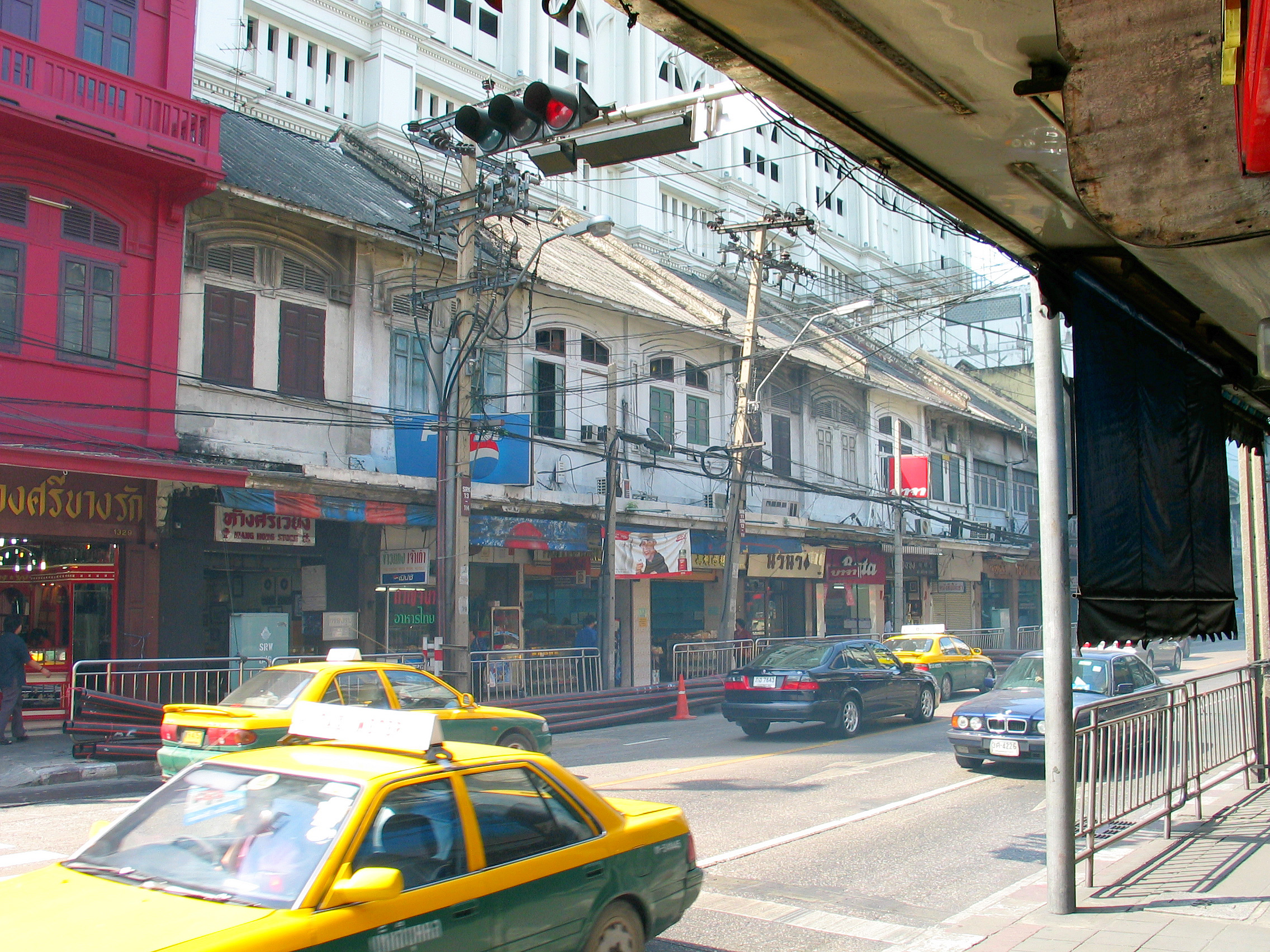 Charoen Krung Road, Bangrak district, Bangkok, thailand